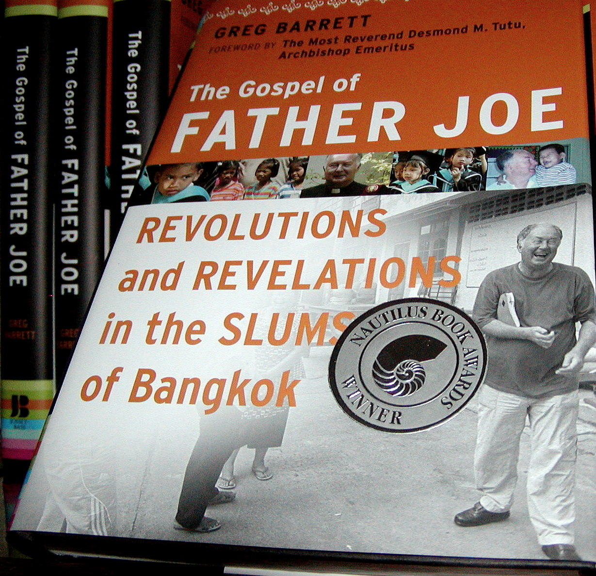 Book jacket for nonfiction book titled The Gospel of Father Joe: Revolutions & Revelations in the Slums of Bangkok